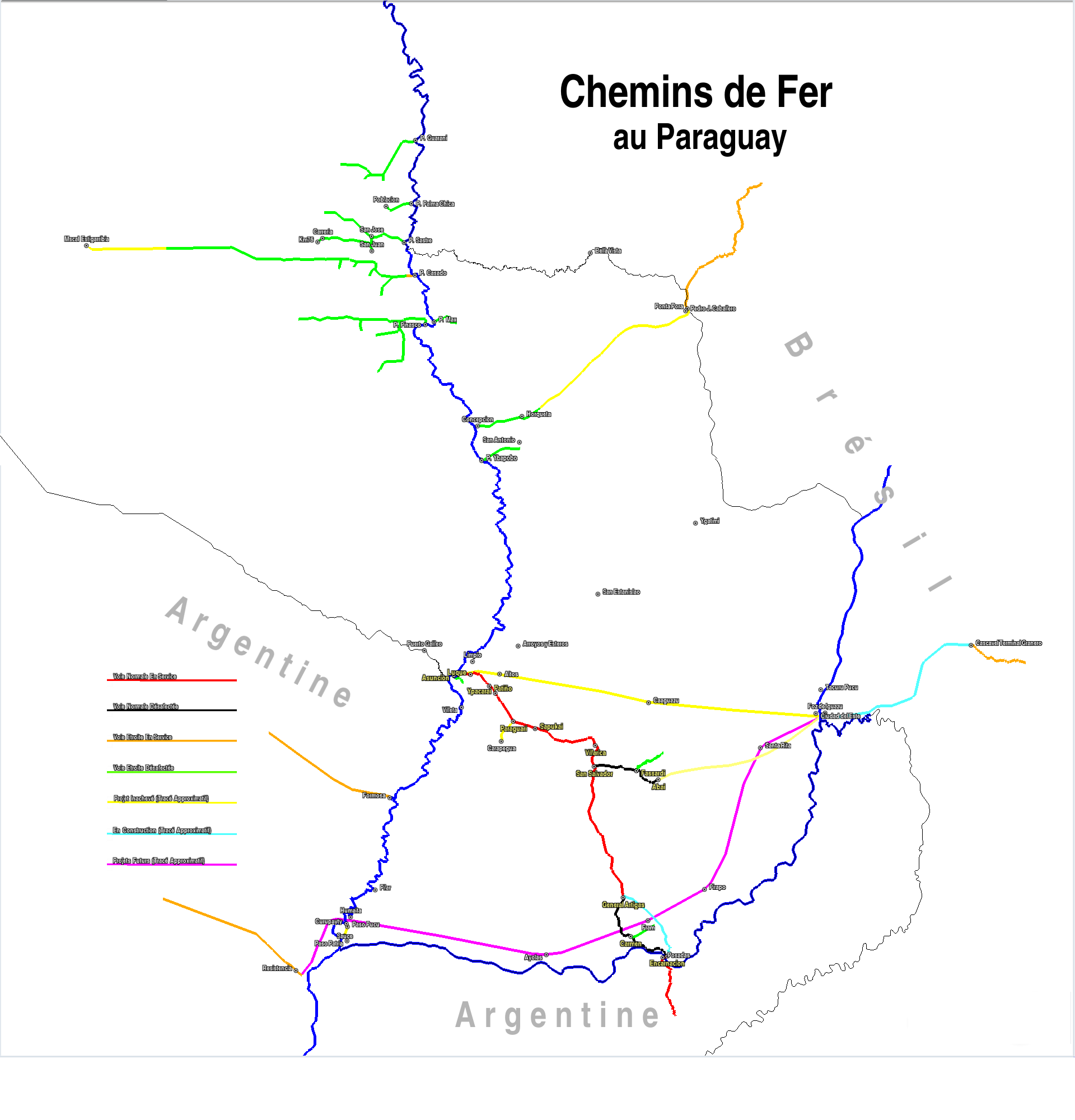 Map of the railways in Paraguay, and immediate neighbourhood. In red the standard gauge lines of the FCPCAL, and in black those that have been lifted. In orange the narrow-gauge lines, and in green those that have been lifted. In yellow the unfinished projects, in turquoise blue the lines under construction, and in mauve the Paranagua-Antofagasta bioceanic project. Tracing from Paraguayan and Soviet Ordnance Survey maps, completed on Google Earth. Paraguay had at one time 440 km of standard gauge line, and over 750 km of narrow gauge.